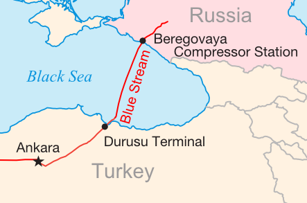 Map of the Blue Stream natural gas transportation pipeline.